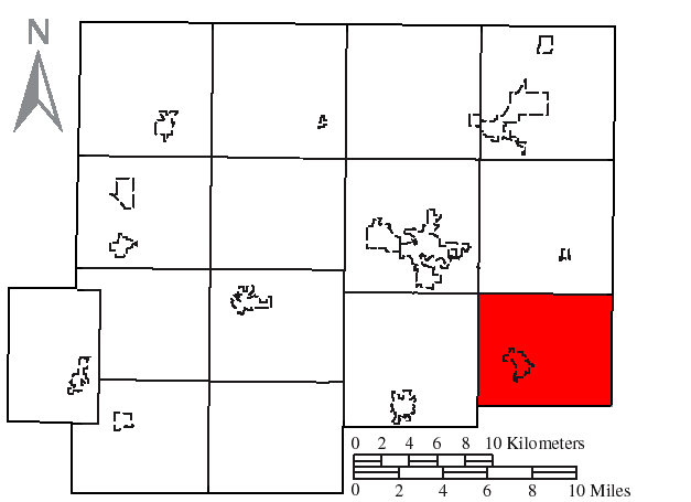 Made by the US Census and modified by myself